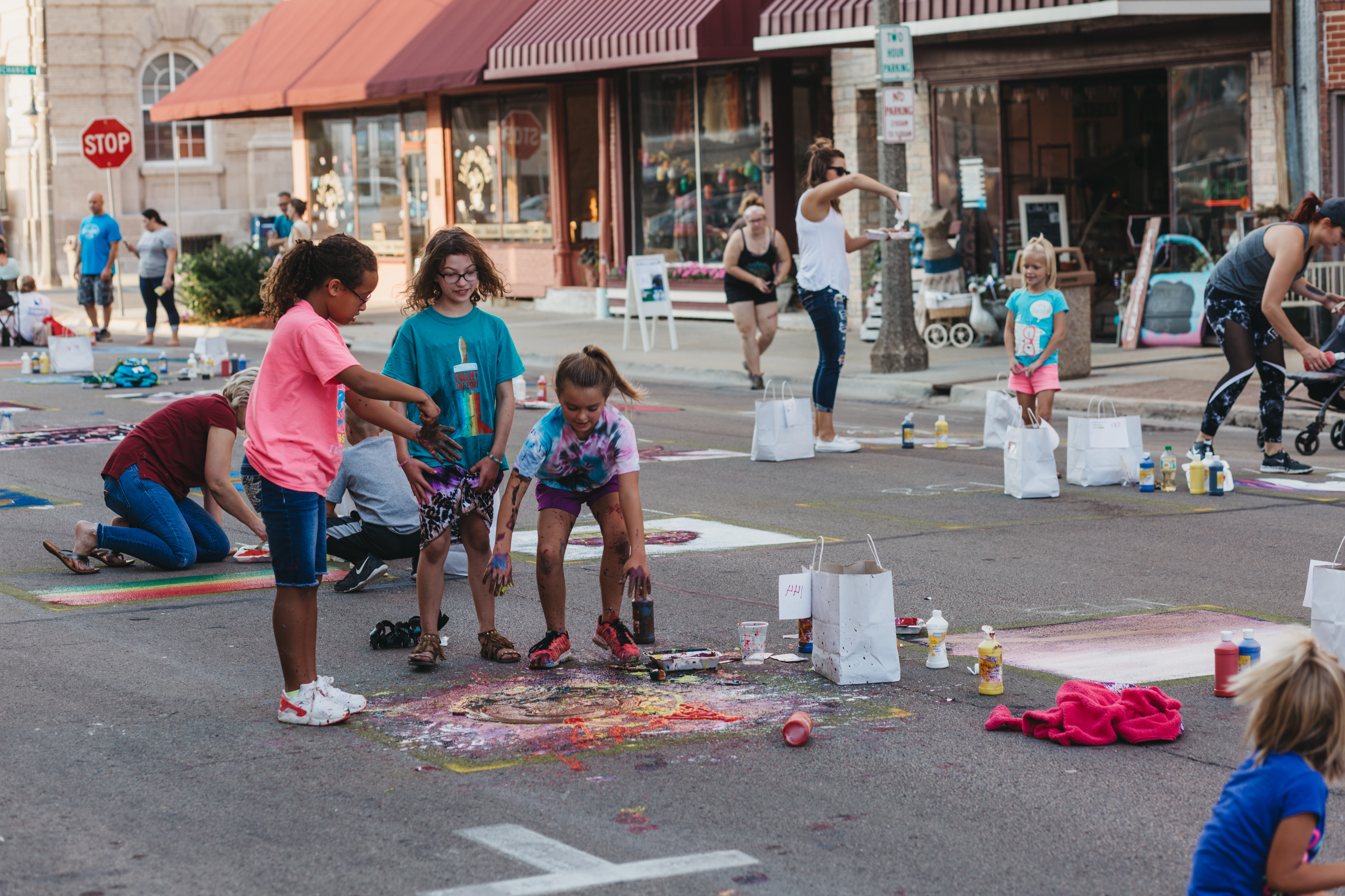 Photo by D+F Photography at Paint the Port festival in September